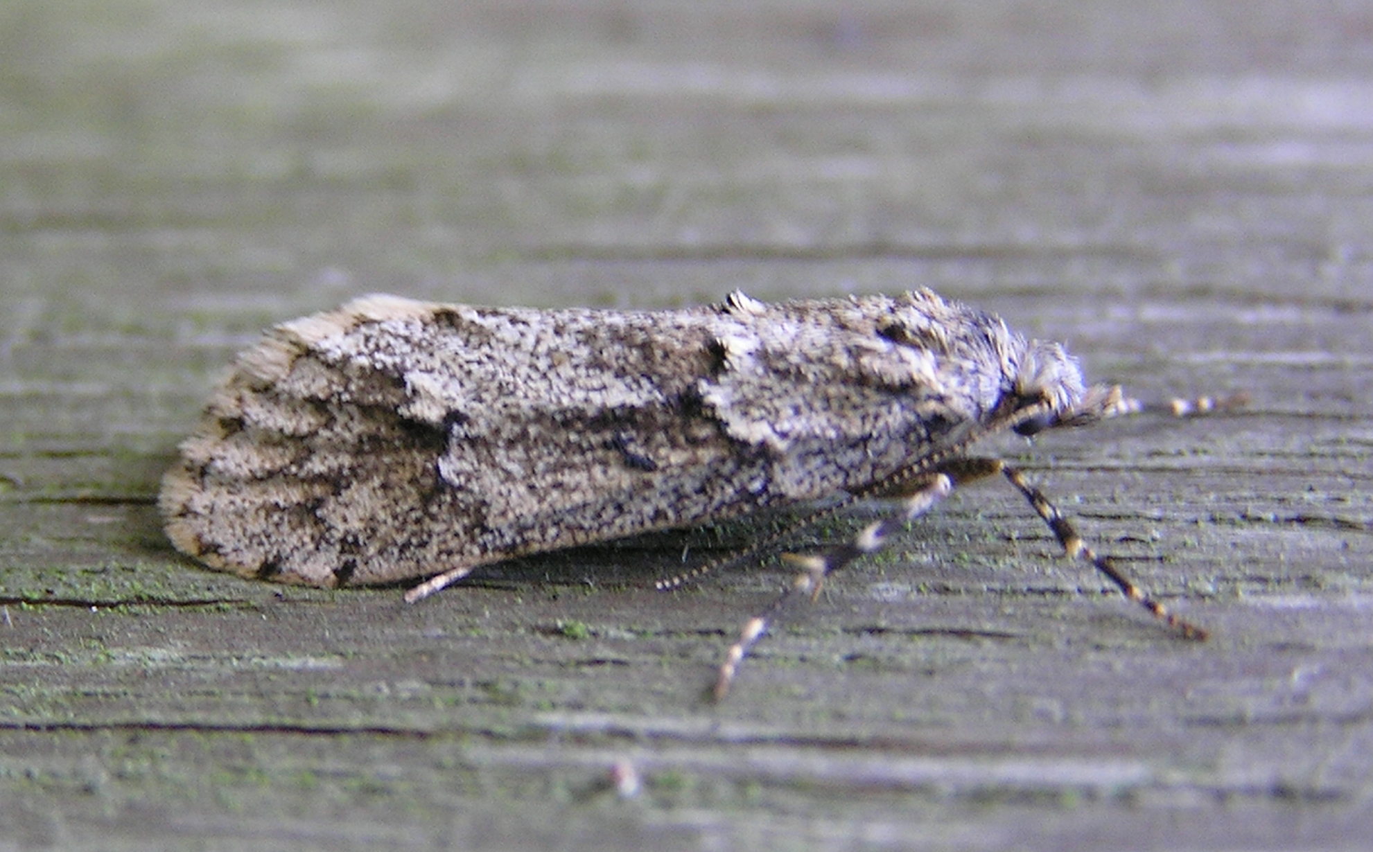 Diurnea fagella, picture taken in Goes, the Netherlands